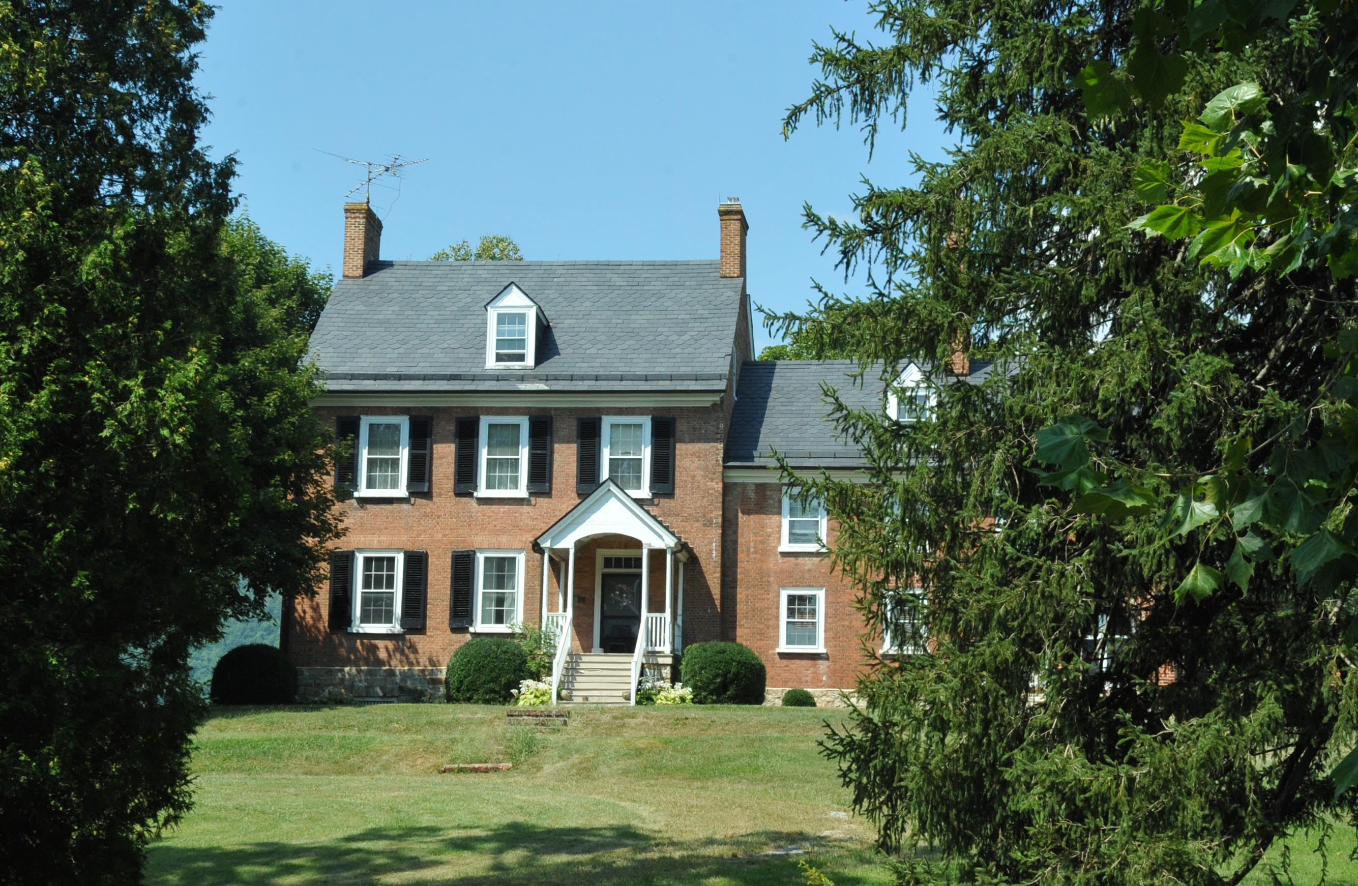 PROSPECT HILL – WILLIAM WISLON HOUSE OR TRAMMELL HOLLIS HOUSE; BUILT BETWEEN 1792 AND 1802 IN GEORGIAN STYLE